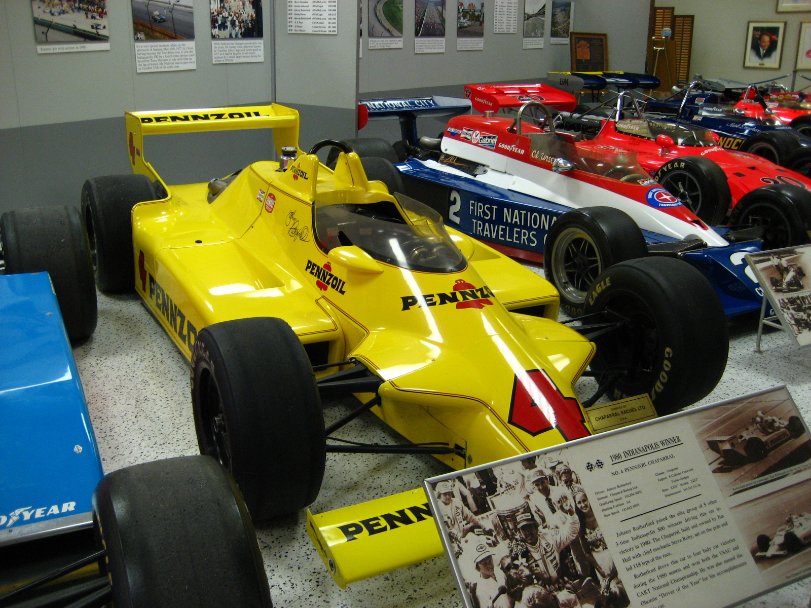 A photograph of a Chaparral 2K that is in the Indianapolis Motor Speedway Hall of Fame Museum